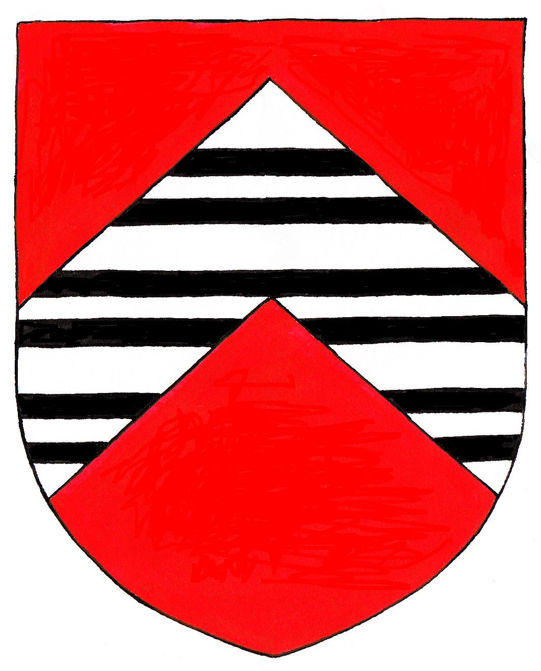 Armorials of Throckmorton of Tortworth, Gloucestershire and of Coughton, Warwickshire: Gules, on a chevron argent three bars gemelles sable